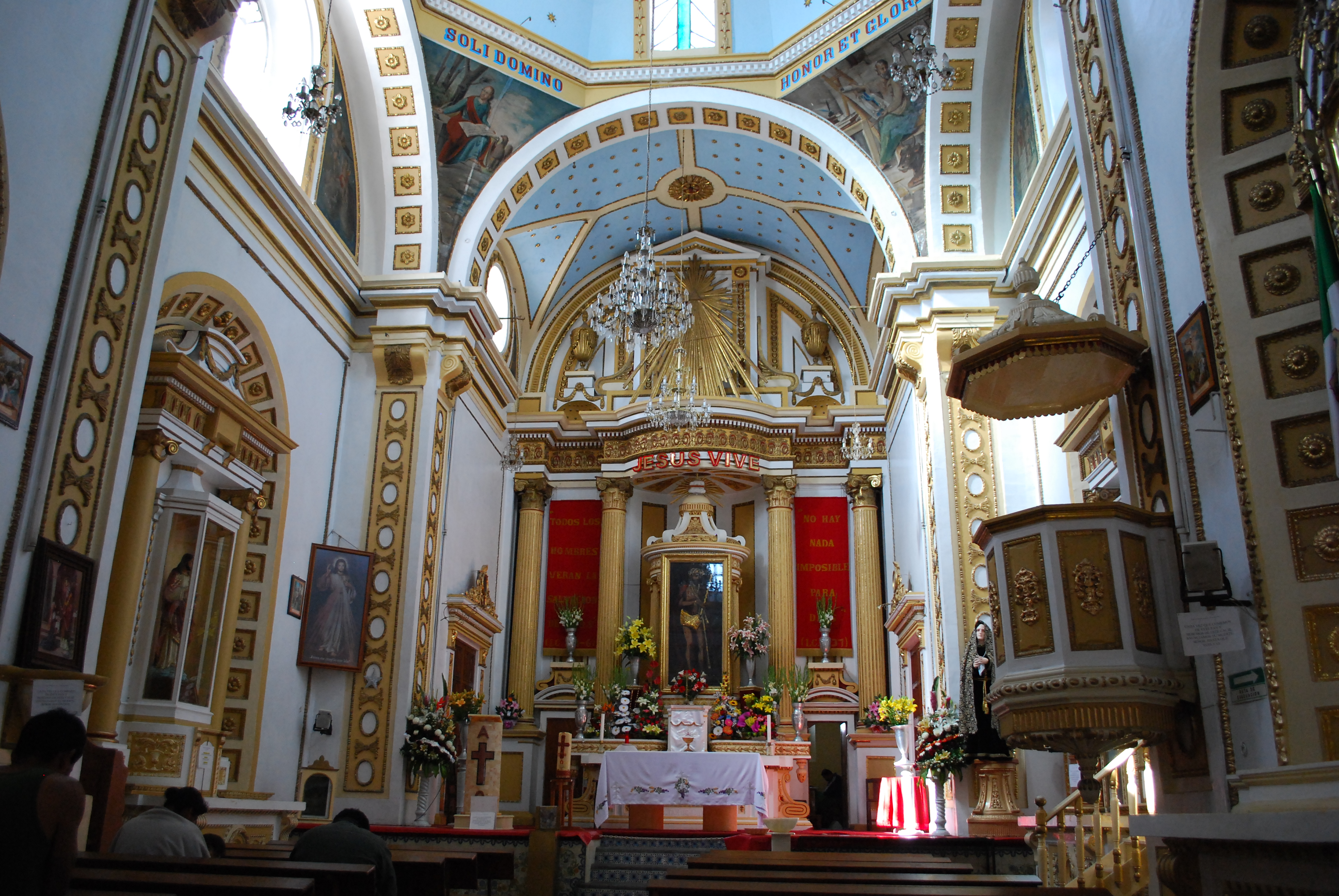 Altar area of the hospital church on Palafox Street in Puebla, Mexico